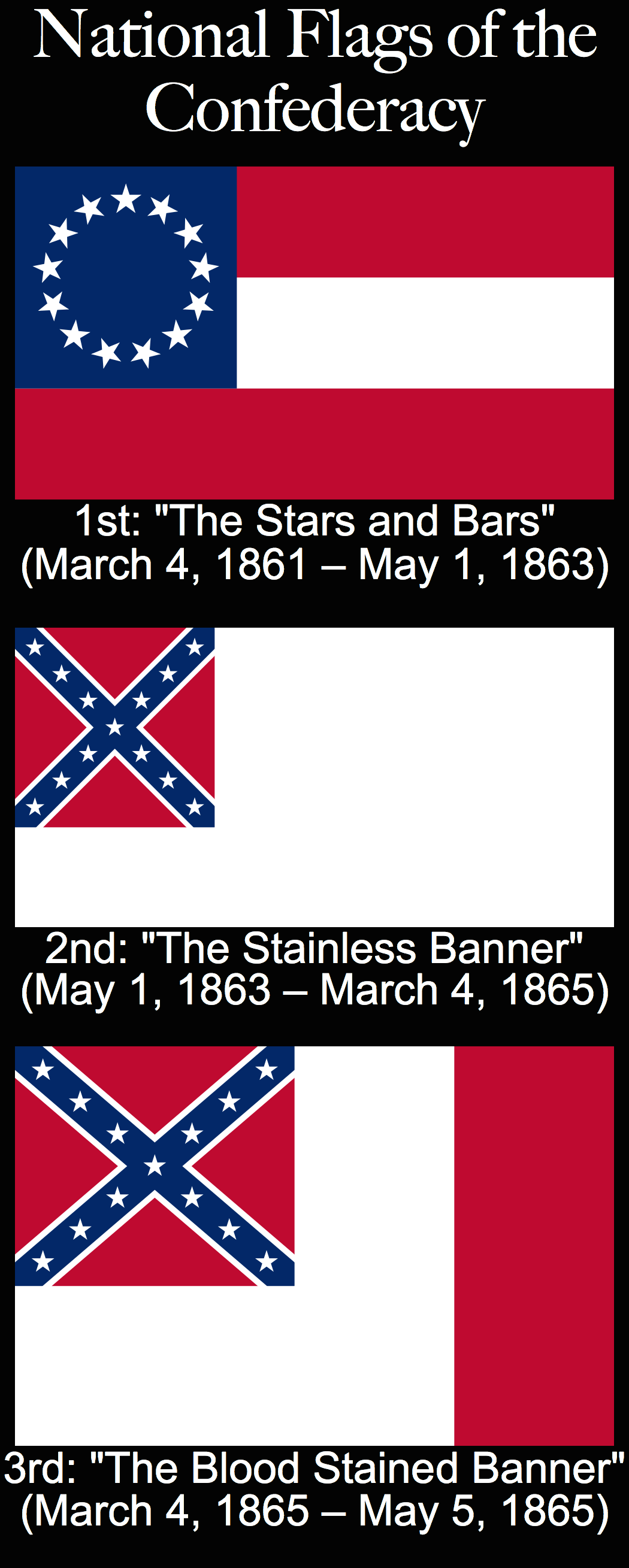 The three successive national flags of the Confederacy